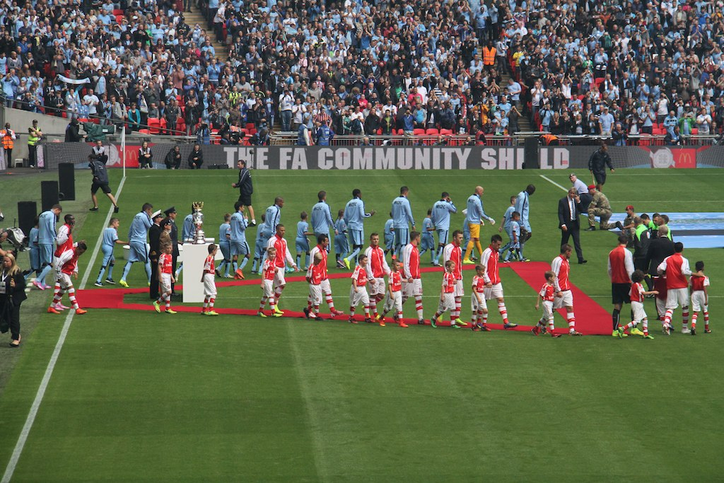 Community Shield 14 - Managers lead the teams out